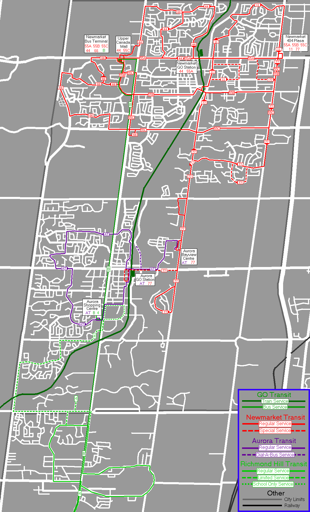 Public Transit Services in Aurora and Newmarket, Ontario.